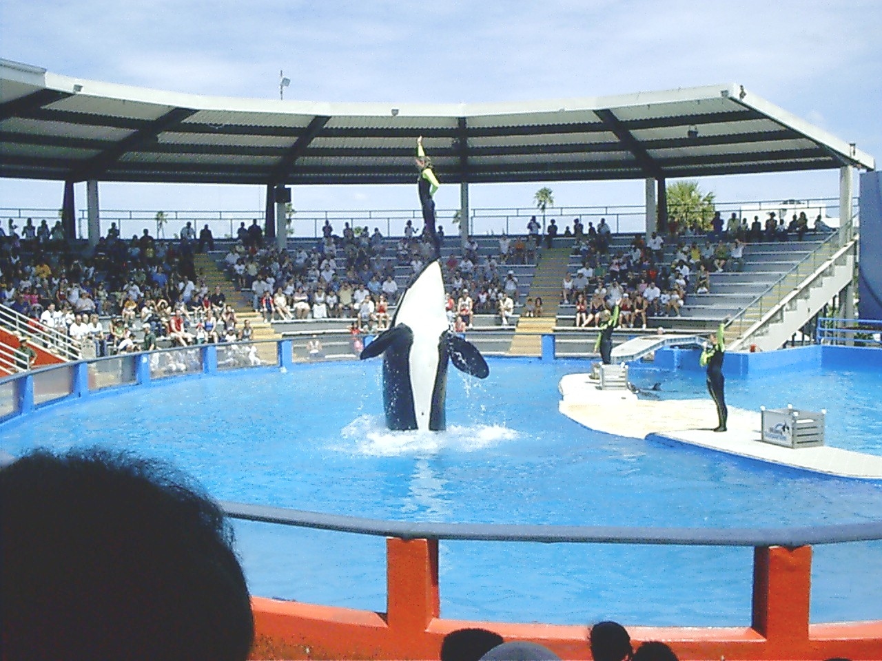 Digital photo taken by Marc Averette. The Miami Seaquarium orca show